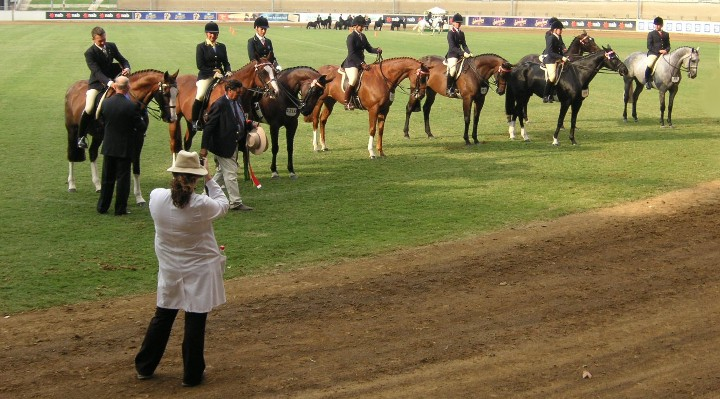 Sydney Royal Easter Show, Awarding a blue ribbon in the Hack class